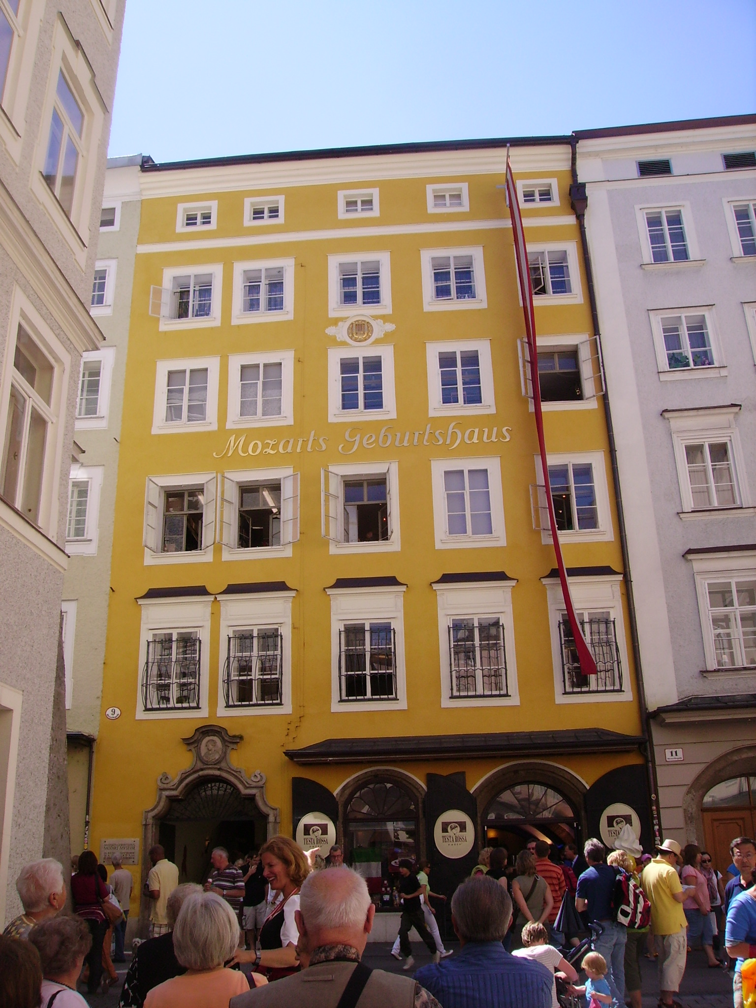 Austria, Salzburg, Getreidegasse